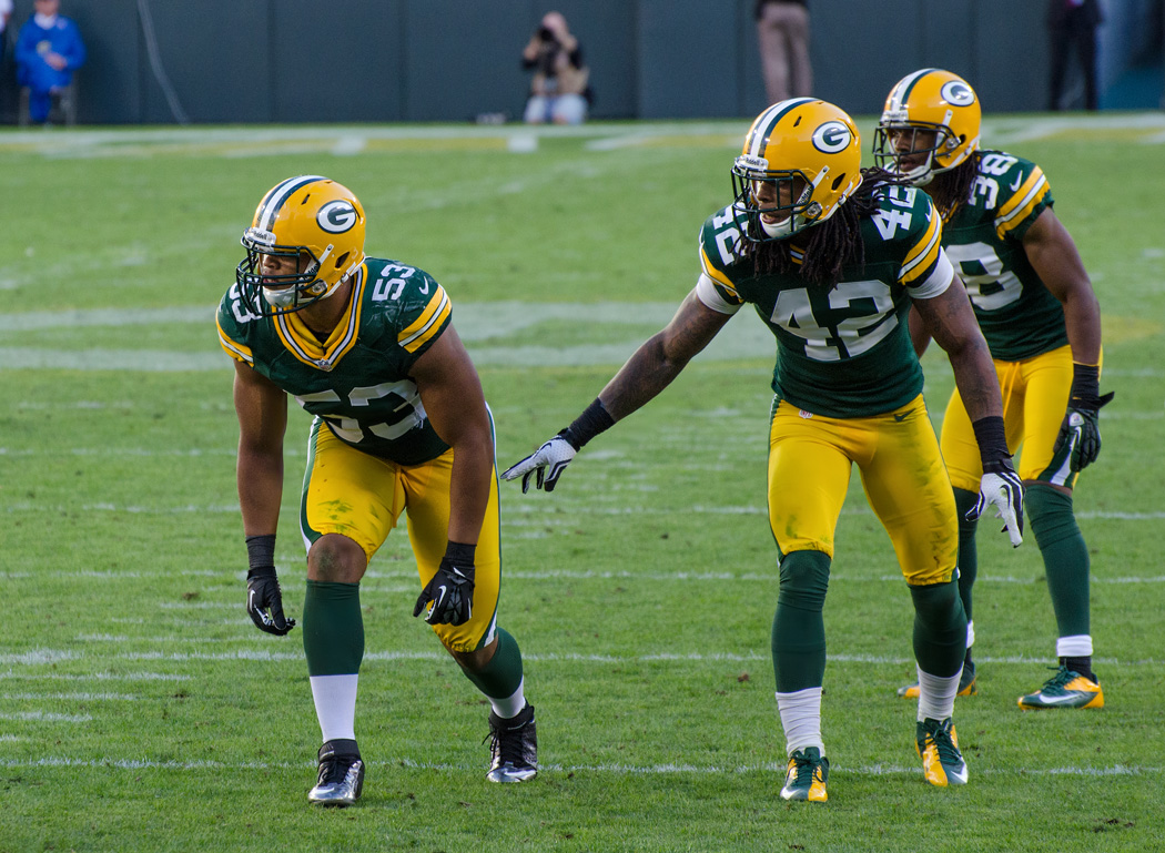 San Francisco 49ers vs. Green Bay Packers at Lambeau Field on September 9, 2012. Photo by Mike Morbeck.